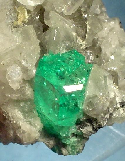 Beryl (Var.: Emerald), Calcite Locality: La Pita Mine, La Pita, Maripi, Vasquez-Yacopí Mining District, Boyacá Department, Colombia (Locality at ) Size: 3.3 x 3.1 x 2.8 cm. A superb, gemmy, intensely green, 1.8 cm emerald crystal set in glassy, colorless calcite rhombs from the less well-known La Pita Mine of Colombia. The crystal broke in half in the pocket, due to tectonic forces, and remains in place by attachment to the surrounding calcite crystals. The upper 1.0 cm has beautiful emerald-green color saturation and gemminess.